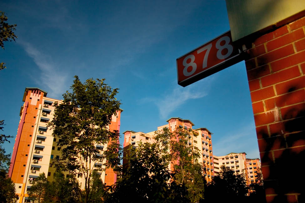 Block 878 Woodlands Avenue 9, Singapore.